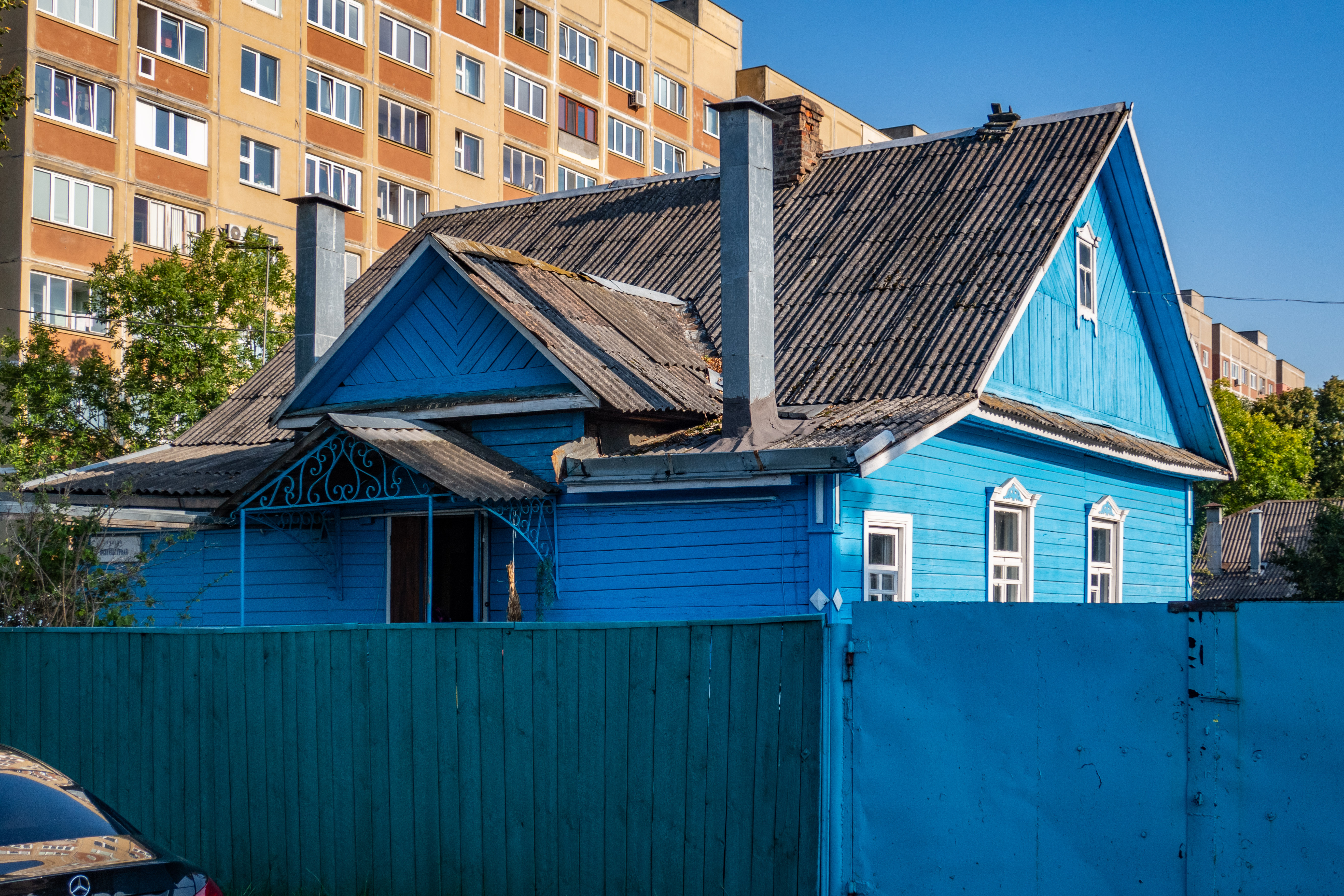 Kozyrava (Kozyrevo), former suburb of Minsk (Belarus)